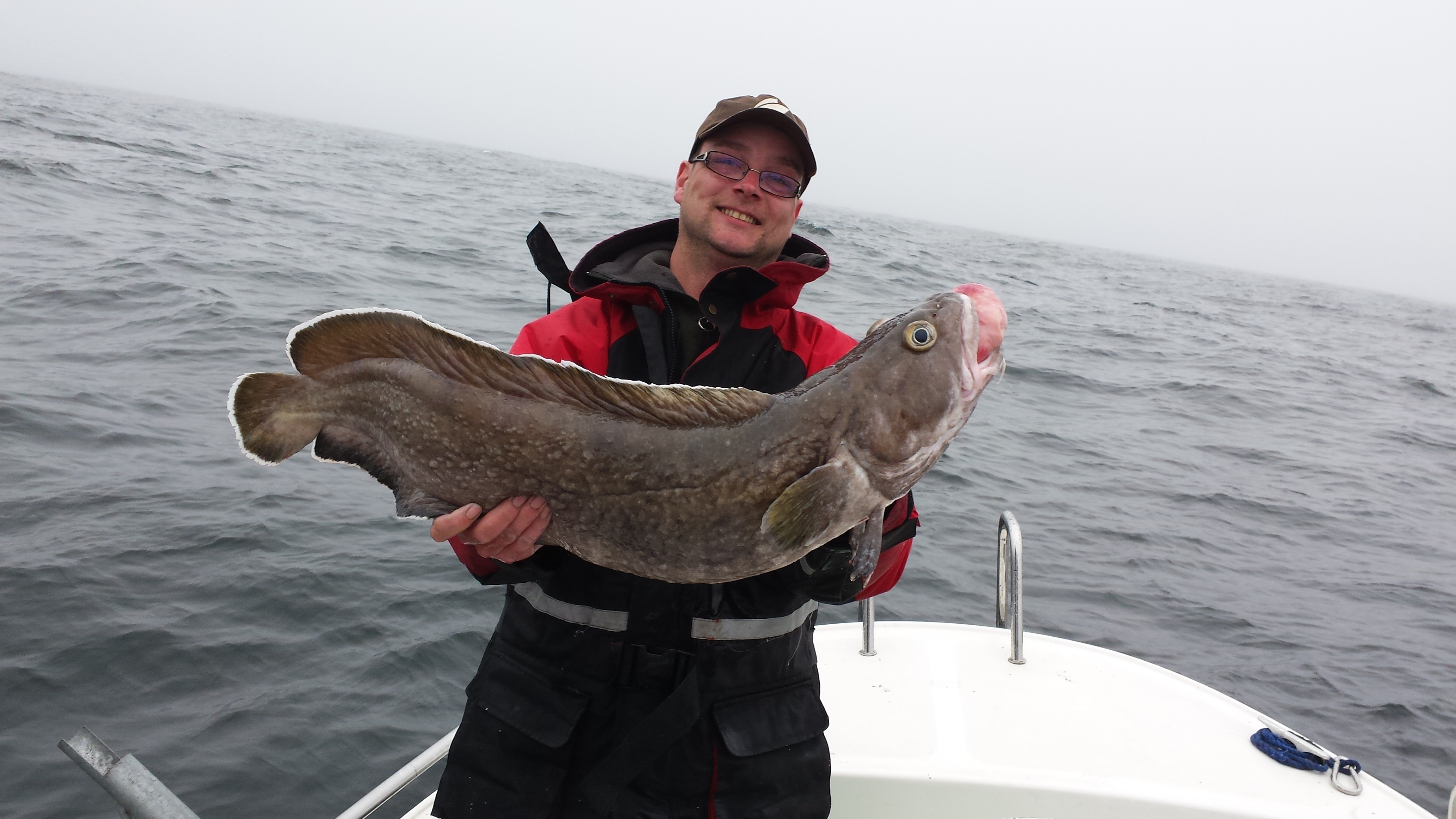 Brosme brosme